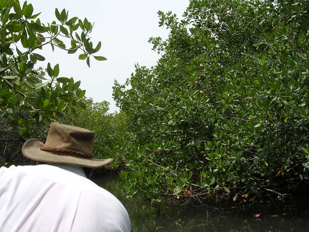 Going into a mangrove. Saloum delta national park, Senegal.